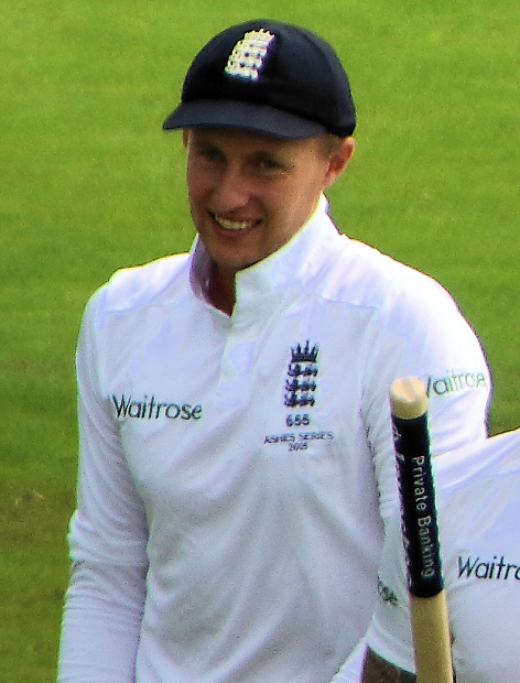 The Ashes 2015